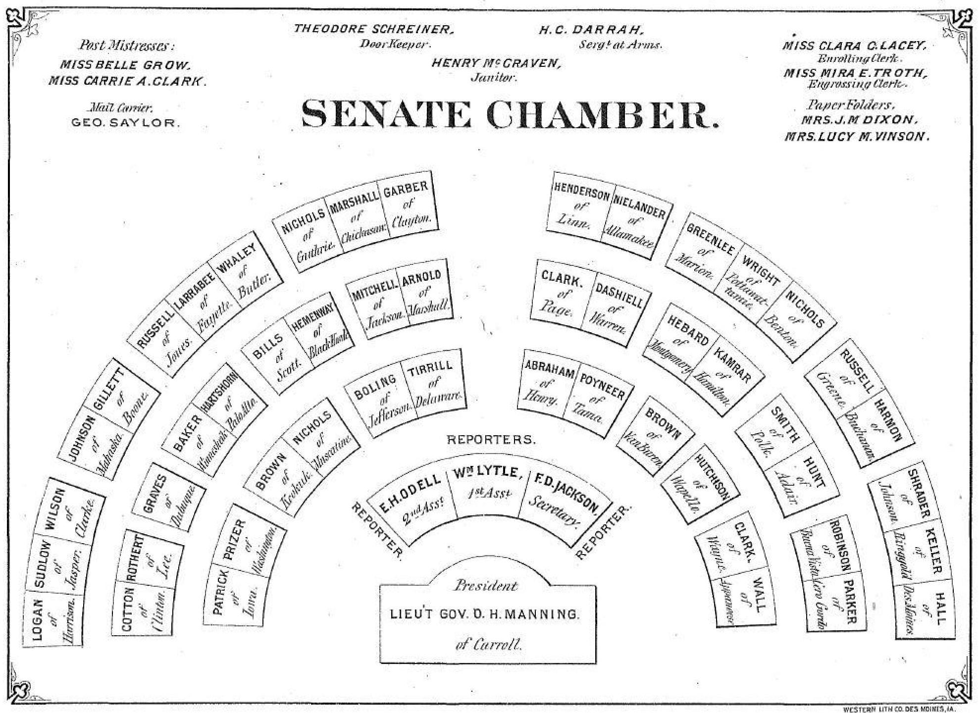 Titled "Manual of the State of Iowa, with Rules, Practice, Committees, Etc., of the Nineteenth General Assembly, for the Year 1882.", this is the 1882 entry in the "Iowa Official Register" series of publications by the State of Iowa.